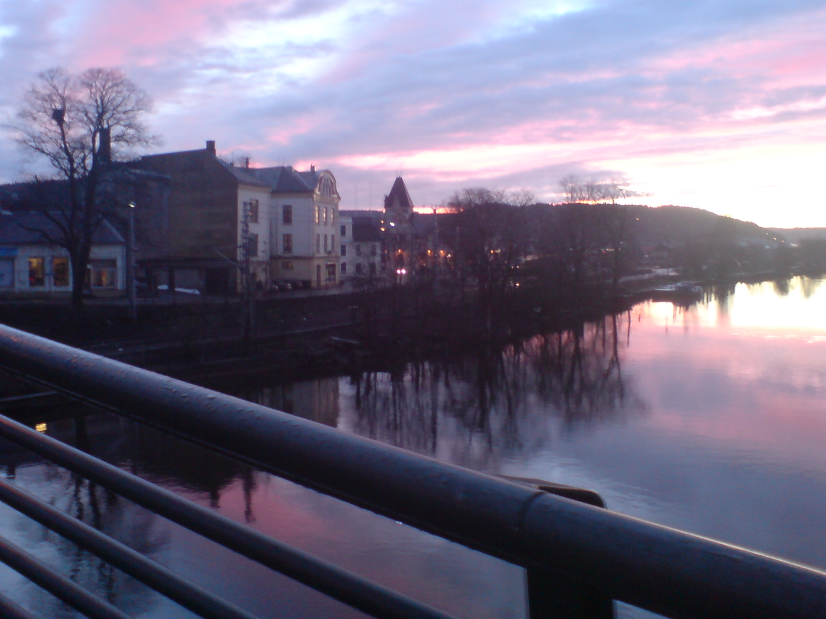 Photograph of Tista, the river running through the Norwegian town Halden.